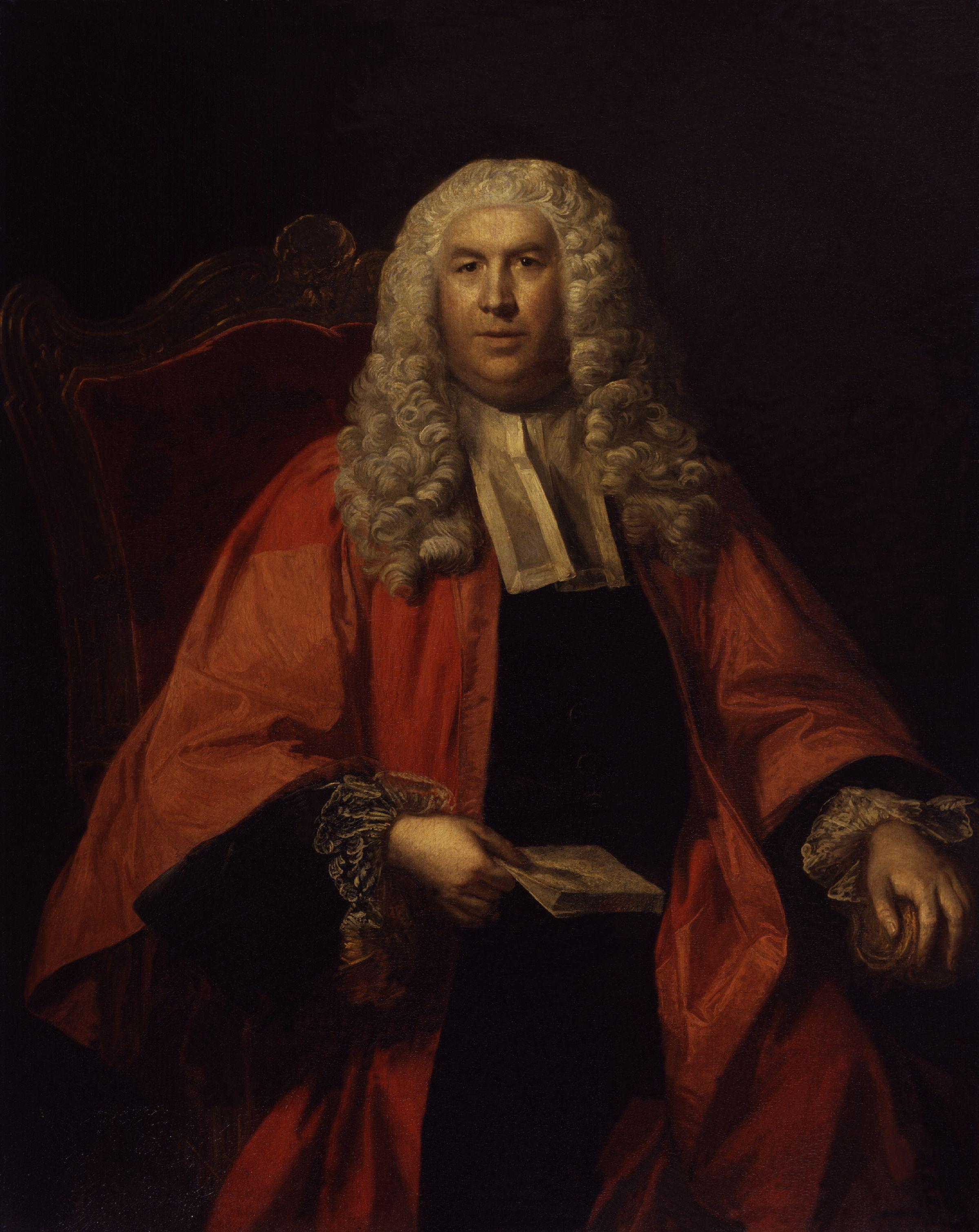 Portrait of Sir William Blackstone (1723-1780)